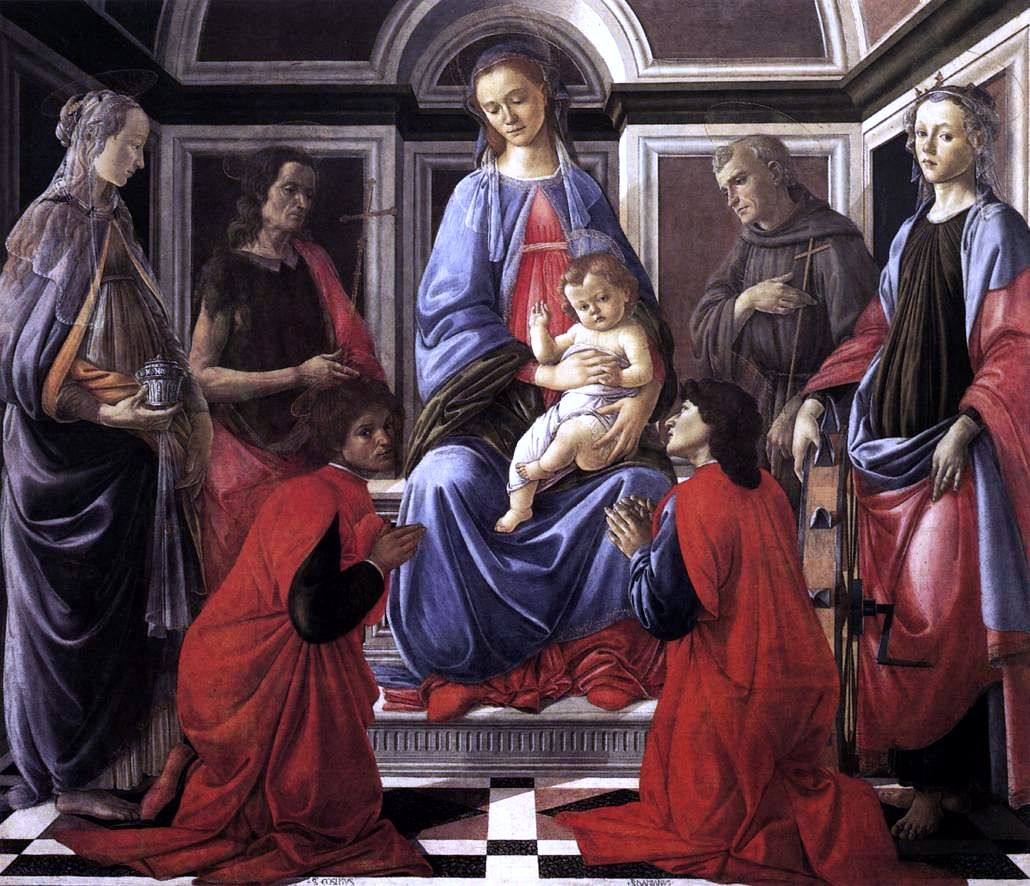 BOTTICELLI, Sandro Angel Chalk, traced with pen, washed and heightened with white, 266 x 165 mm Galleria degli Uffizi, Florence